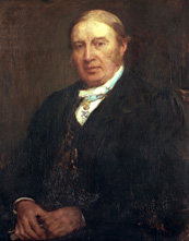 Oil on canvas painting of John Pentland Mahaffy, KGCB, and Provost of Trinity College Dublin (ca. 1918).